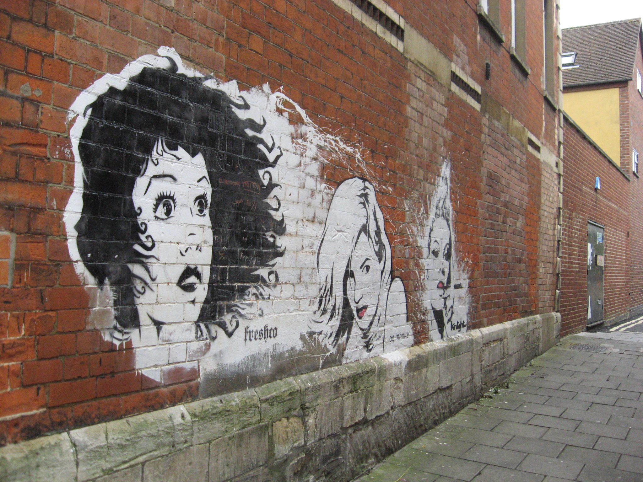 Graffiti wall at Stroud, Gloucestershire, England